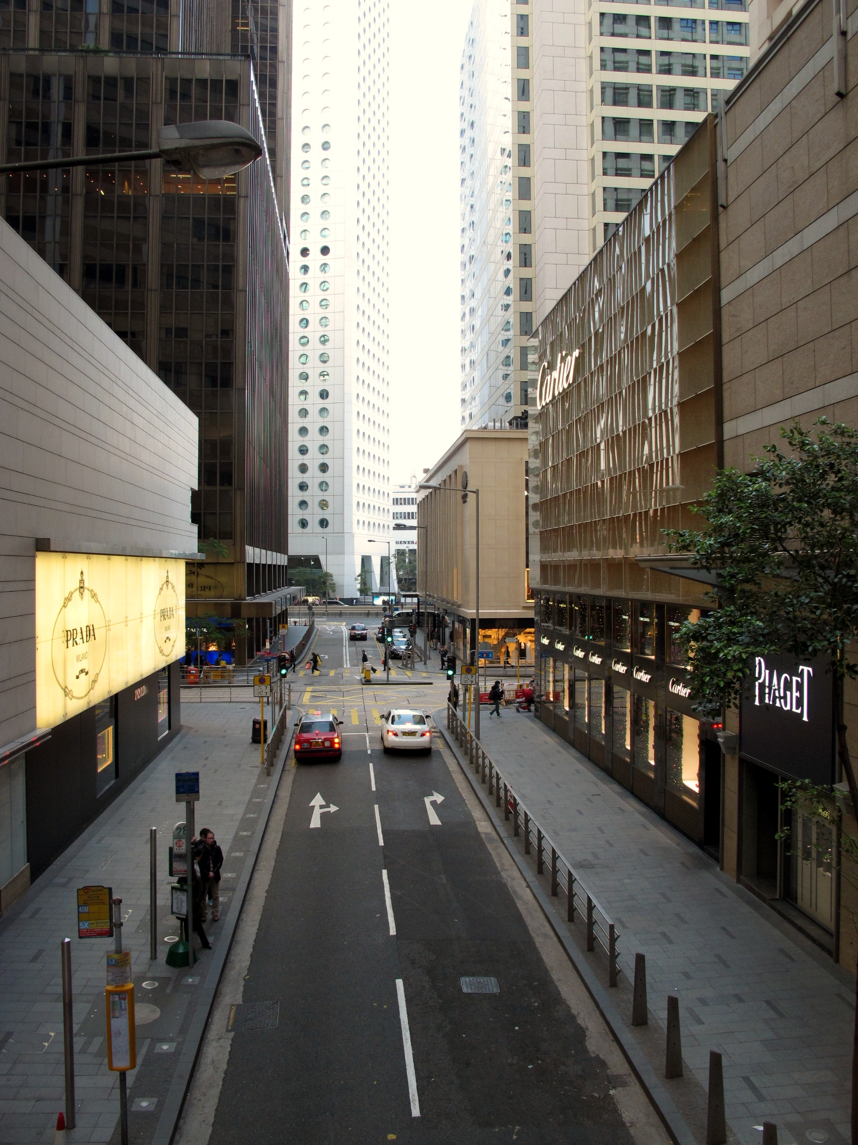 Ice House Street